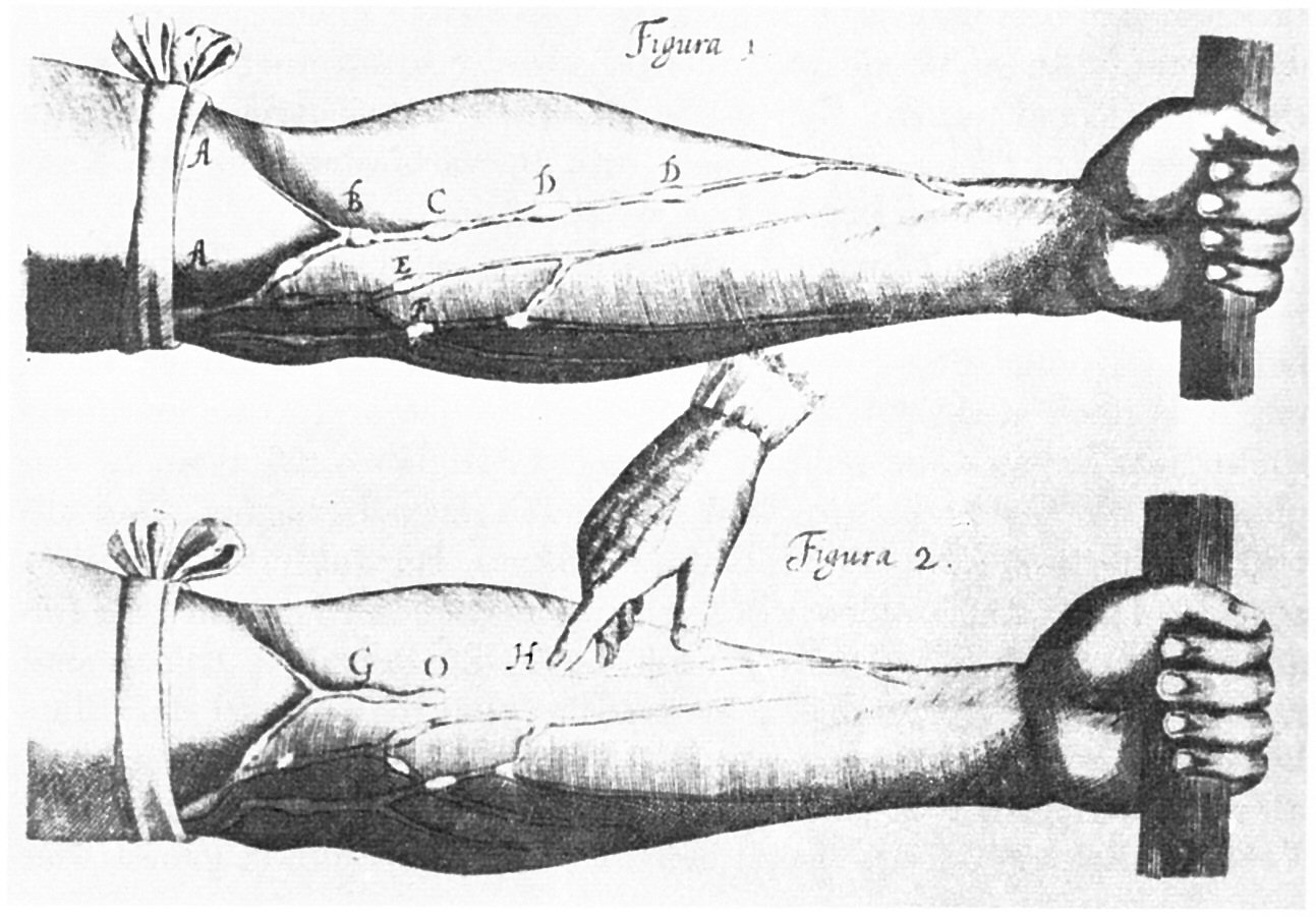 William Harvey (1578-1657) Image from Harvey's Exercitatio, showing that the blood circulated. When a vein was blocked with a tourniquet, it swelled up, the blood unable to escape back towards the heart.